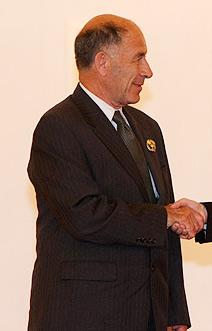 Vladimir Arnold, Russian mathematician